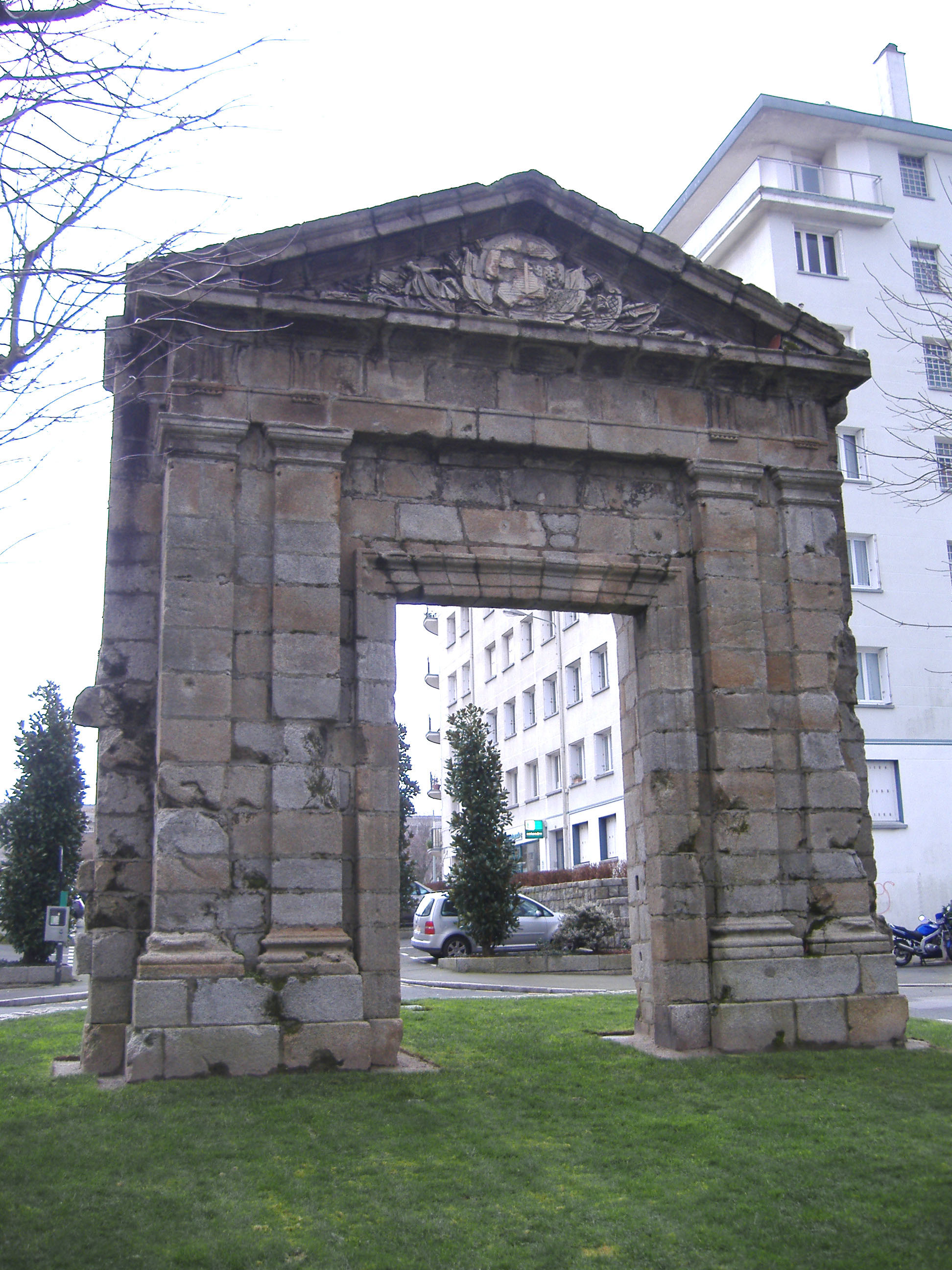 Gate of the former seminary of Brest (18th century)